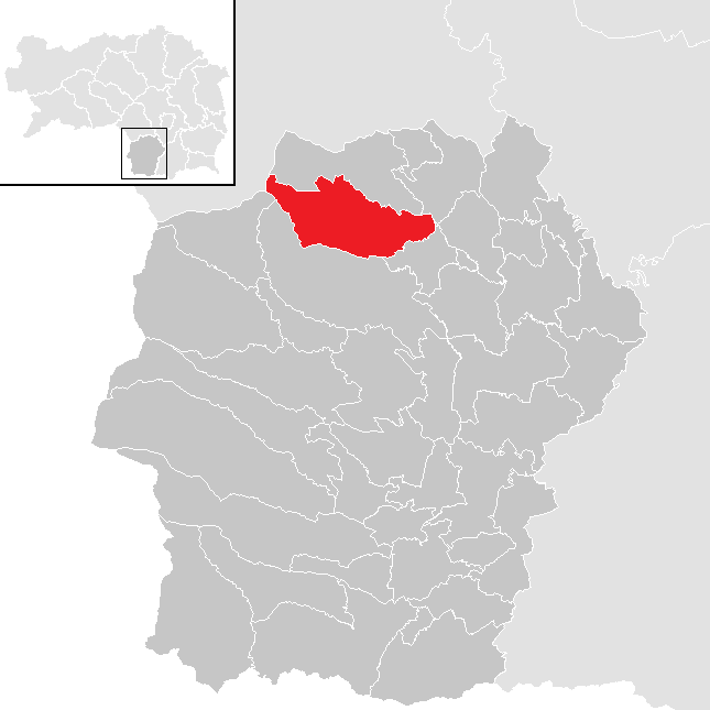 District Deutschlandsberg, Styria, Austria